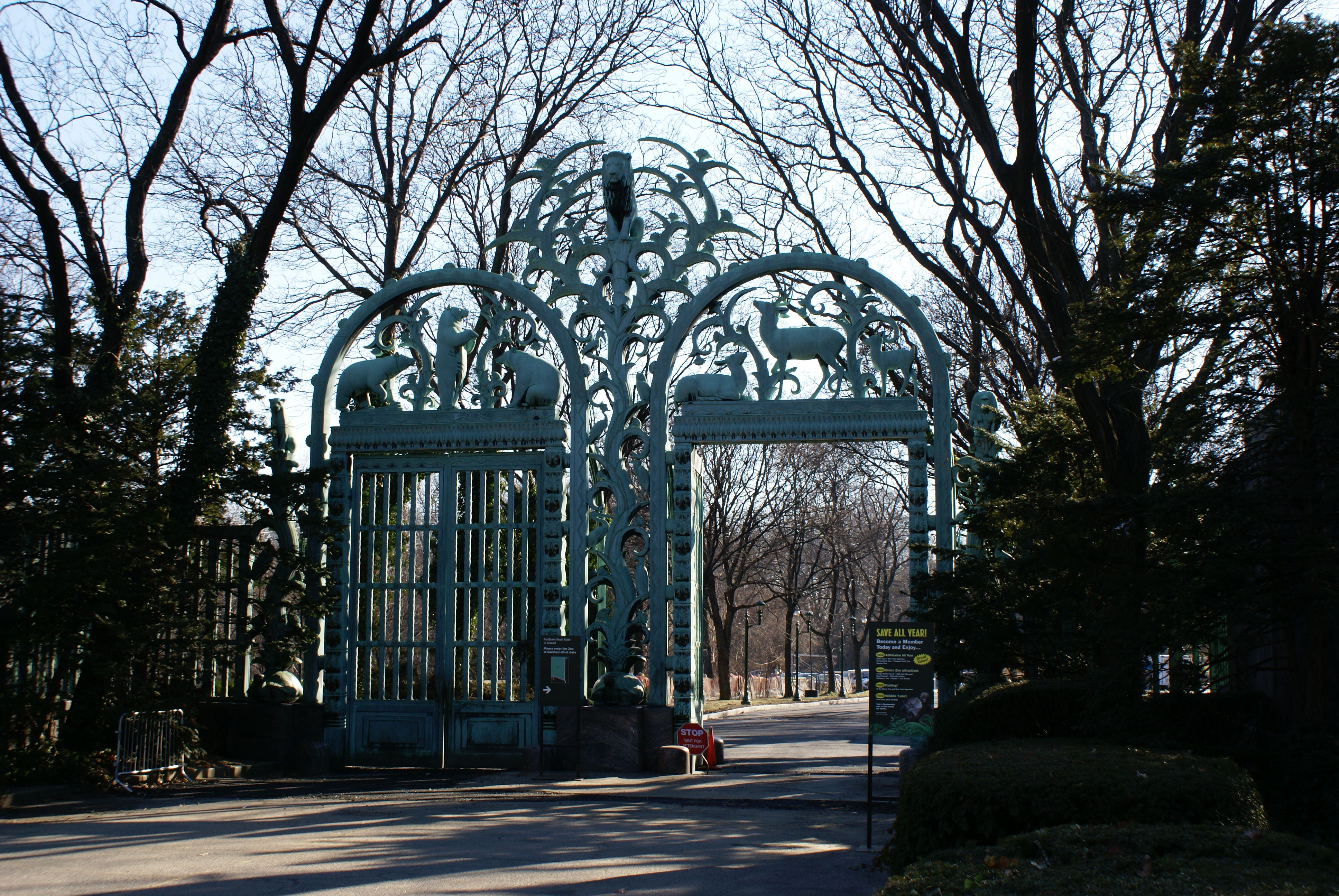 One of the entrances to the Bronx Zoo. Note the animals at the top of the gate.